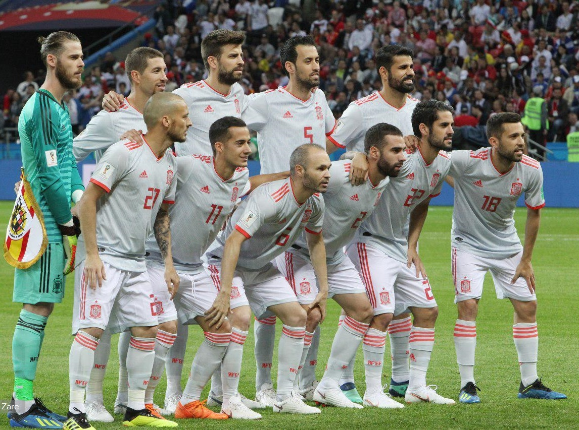 Iran and Spain match at the FIFA World Cup 2018